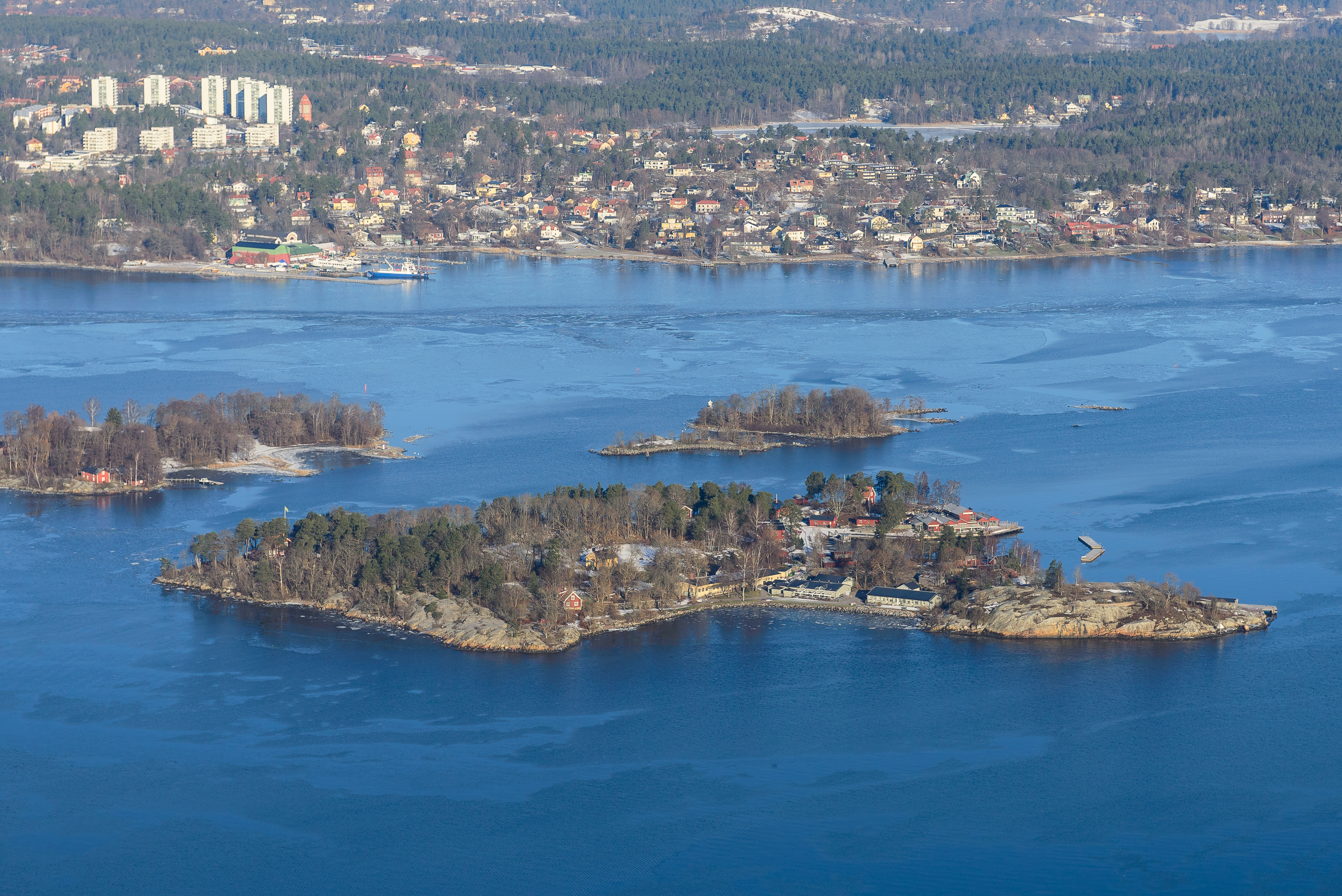 Fjäderholmarna.